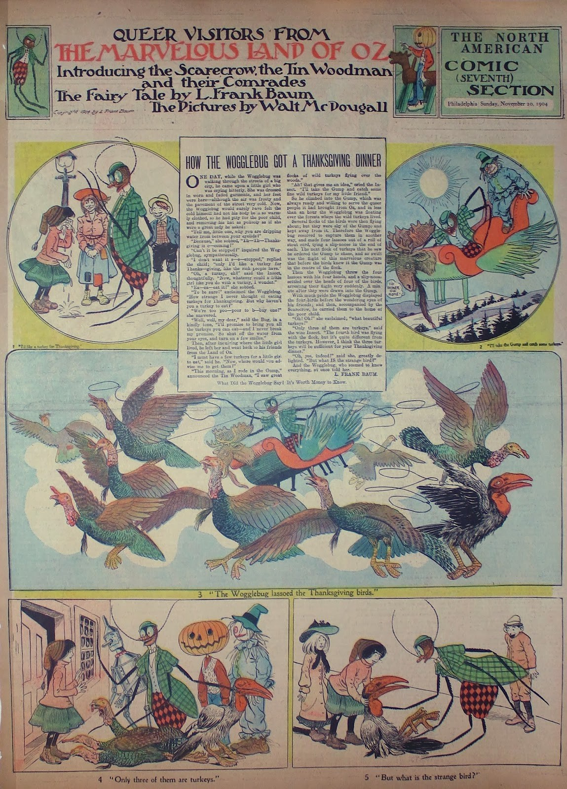 How the Wogglebug Got a Thanksgiving Dinner